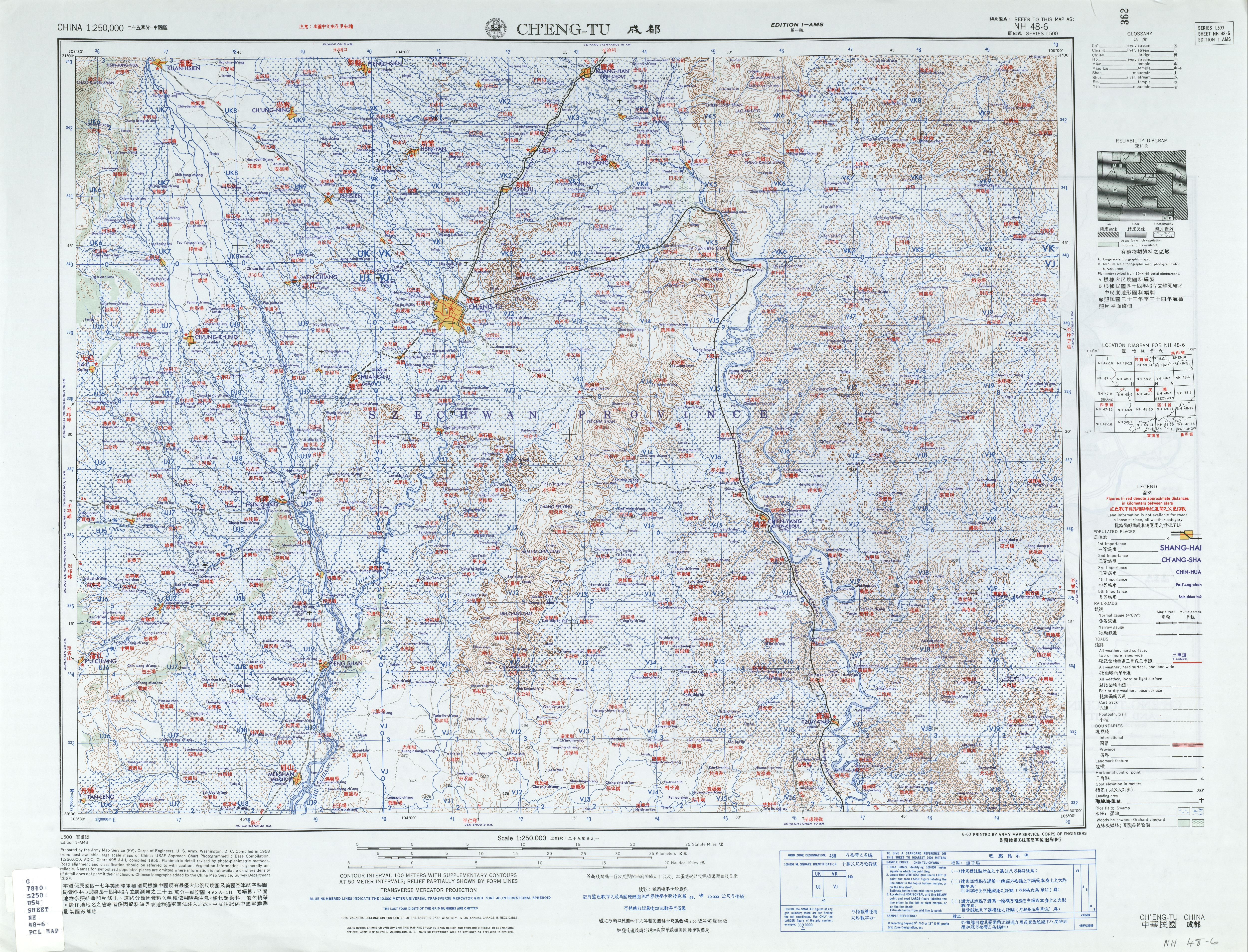 China AMS Topographic Maps